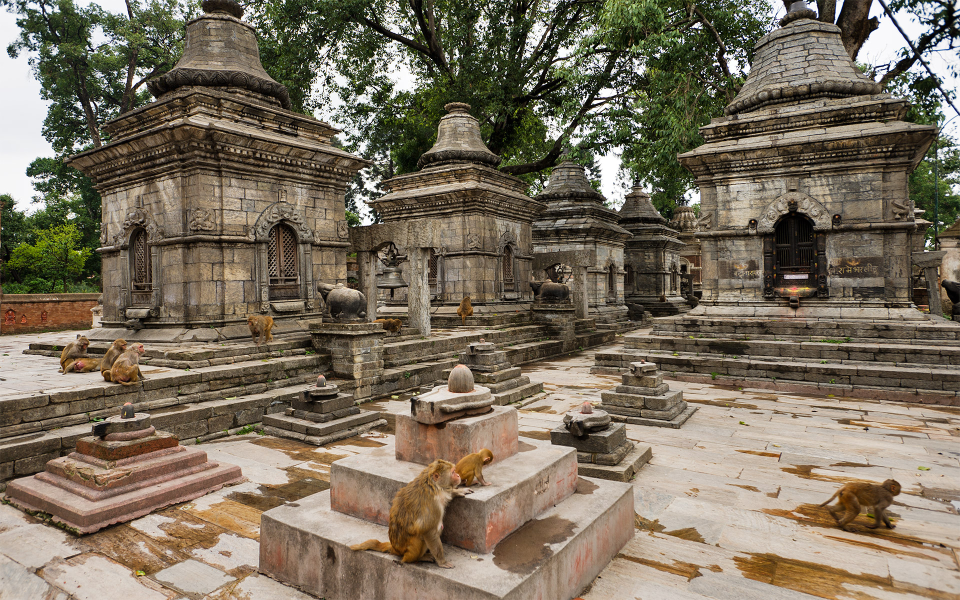 A view of Monasteries around Pashupatinath Temple (Nepali: पशुपतिनाथ मन्दिर)